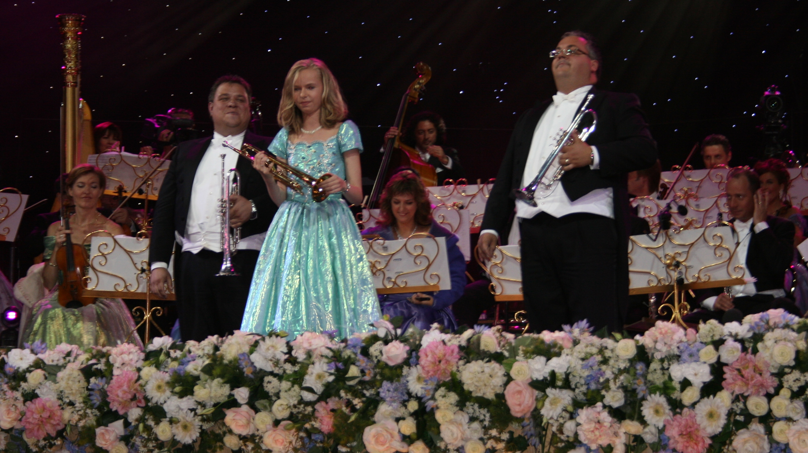 "Il Silencio" ("The Silence") played by 13 years old Melissa Venema with André Rieu and his orchestra at the Vrijthof in Maastricht